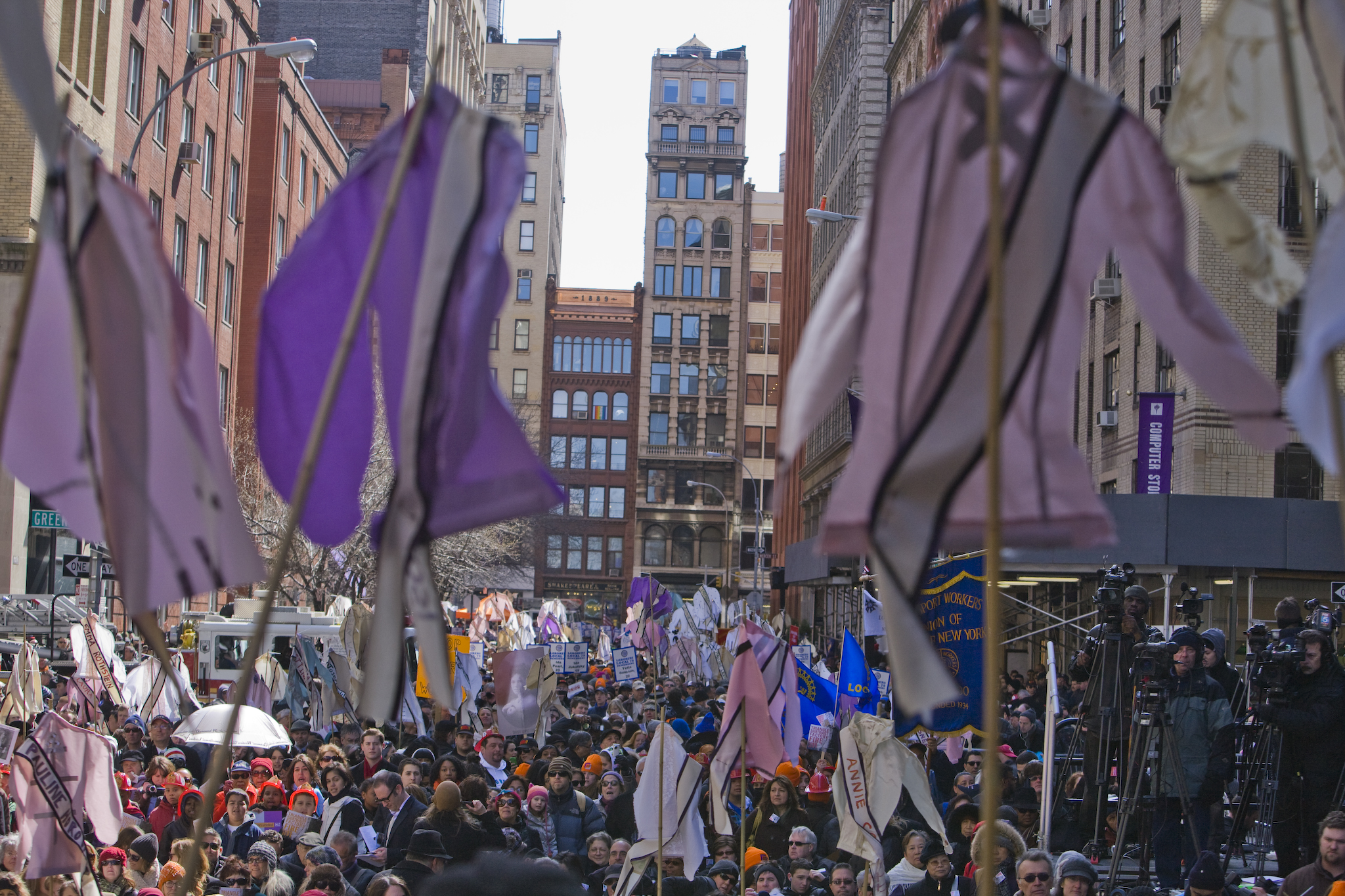 100th anniversary of 1911 Triangle Shirtwaist Factory Fire